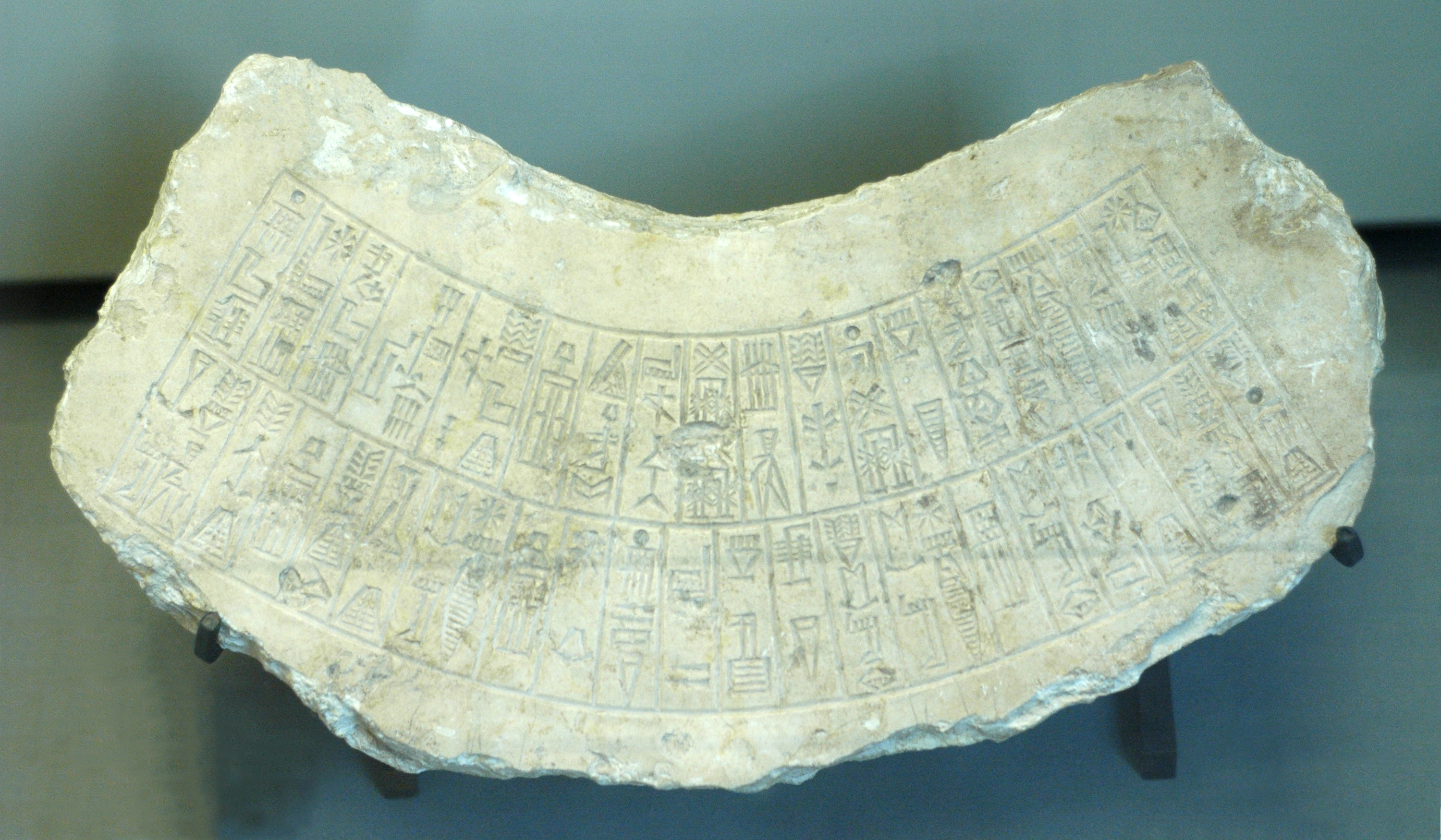 Inscription by Naram-Sin, recounting the building of the temple of Marad by his grandson Lipit-Ili. Limestone, ca. 2250 BC.